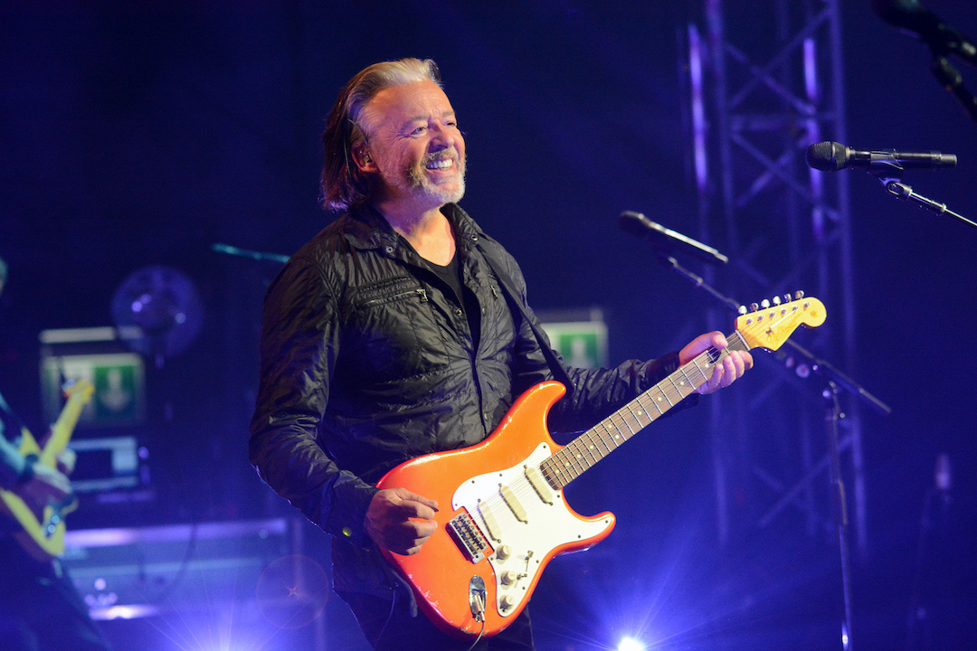 Roland Orzabal playing at Tollwood Summer Festival in Munich, Germany